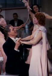 Jeanette MacDonald and Nelson Eddy in a screenshot photo from "Sweethearts" trailer showing that she was visibly pregnant at this time. The seam of this dress can also be seen to have been altered and expanded. Cropped screenshot of Jeanette MacDonald visibly pregnant from the trailer for the film Sweethearts co-starring Nelson Eddy.